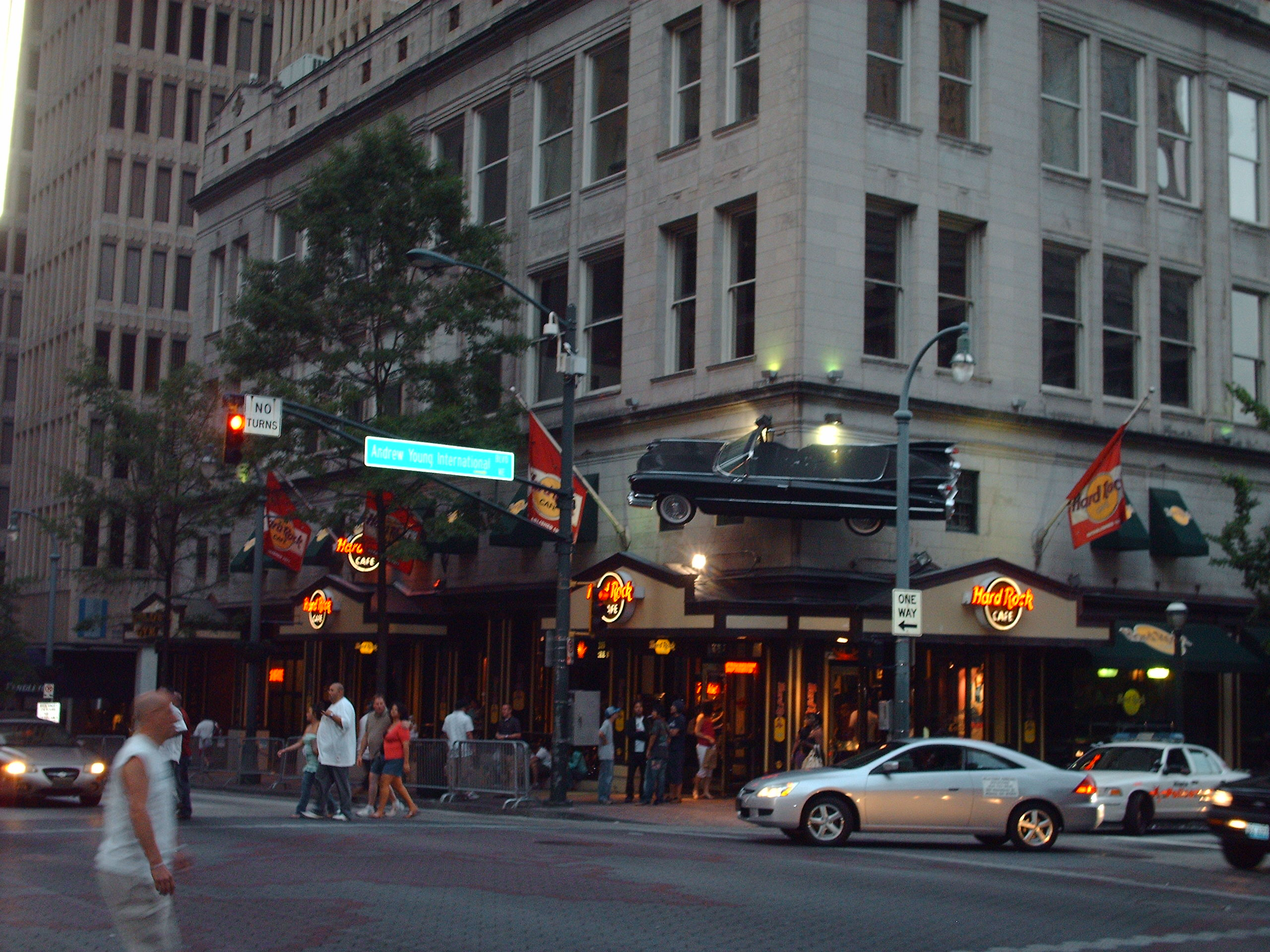 The geographic center of Downtown Atlanta at the intersection of Peachtree Street and Andrew Young International Boulevard in the Hotel District with four cool guys standing out front of Hard Rock Atlanta after enjoying a tasty dinner.